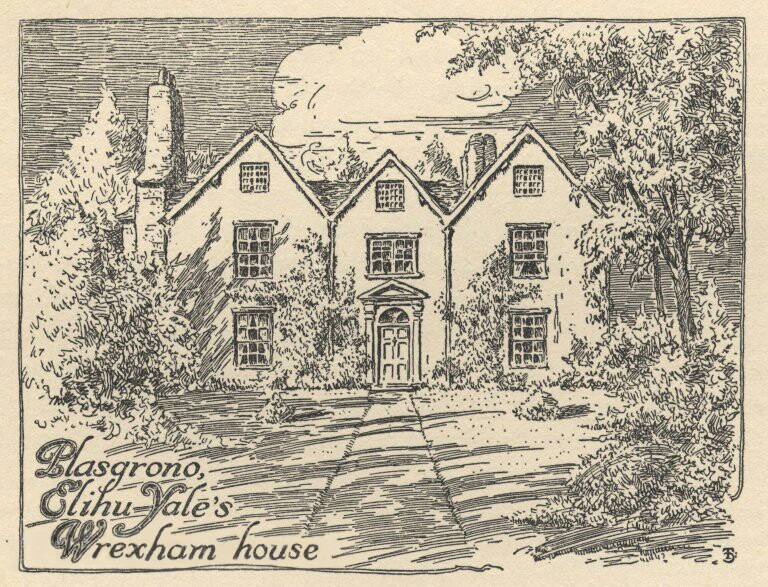 Pen and ink drawing of 'Plas Grono,' the estate belonging to Elihu Yale, near to Wrexham, North Wales. Elihu Yale was the namesake of Yale College, later Yale University. The estate was originally purchased by Dr. David Yale Sr., great-grandfather of Elihu Yale. The drawing was published in 'The Beginnings of Yale 1701-1726,' published in 1916. Image courtesy of the Yale University Manuscripts & Archives Digital Images Database.